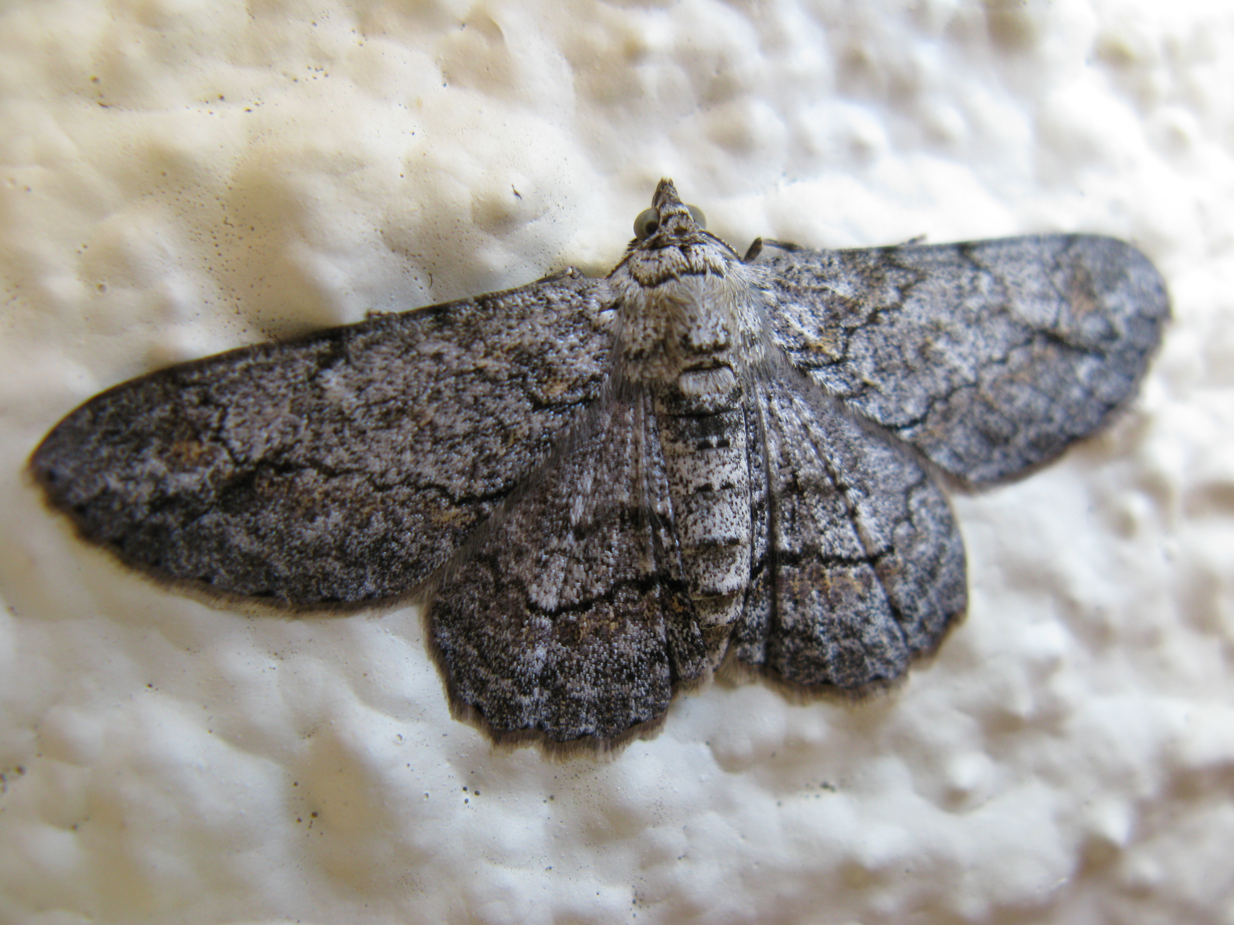 Eulycia sp. (Geometridae: Ennominae: Boarmiini) photographed near Helderberg, South Africa. Not identifiable to species level based on adult facies alone. A typical Geometrid moth, obligingly sitting on a white wall. When sitting on bark they usually are too well camouflaged to spot.